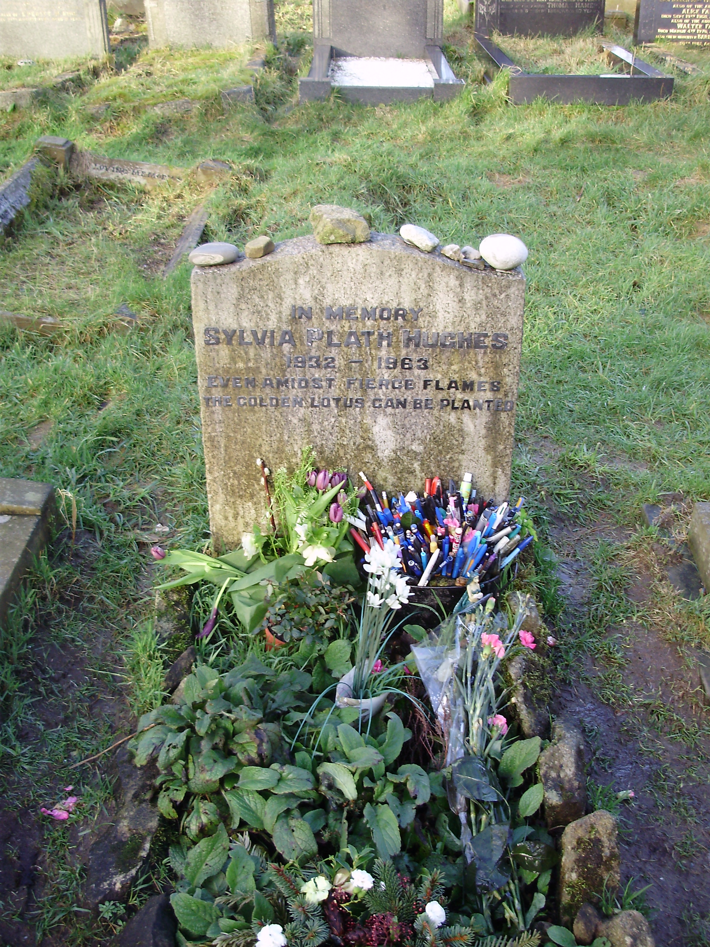 Close up photograph of Sylvia Plath's grave, taken on 5 January 2012 at Heptonstall church West Yorkshire